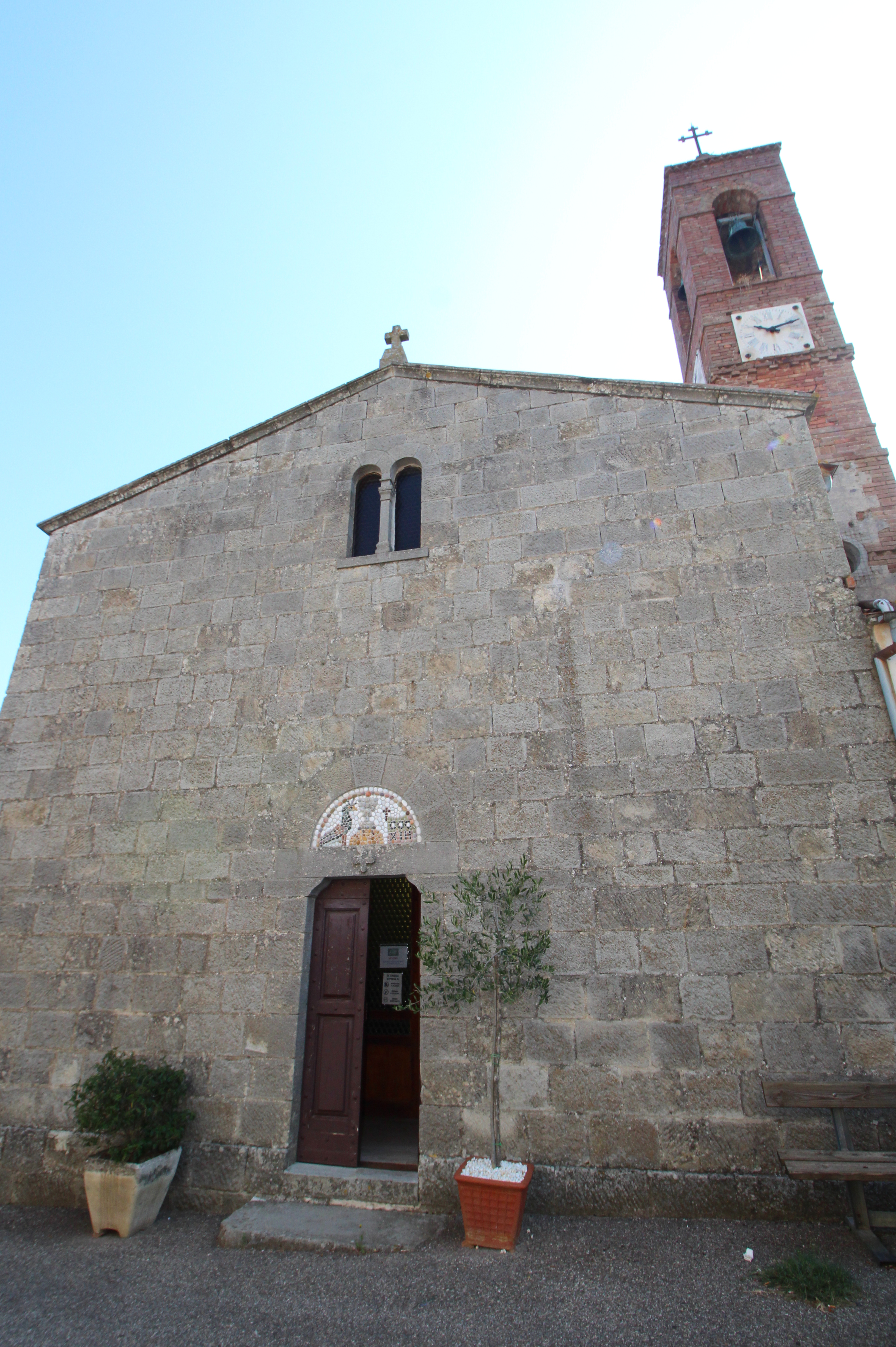 San Biagio Church in Scalvaia, hamlet of Monticiano, Province of Siena, Tuscany, Italy